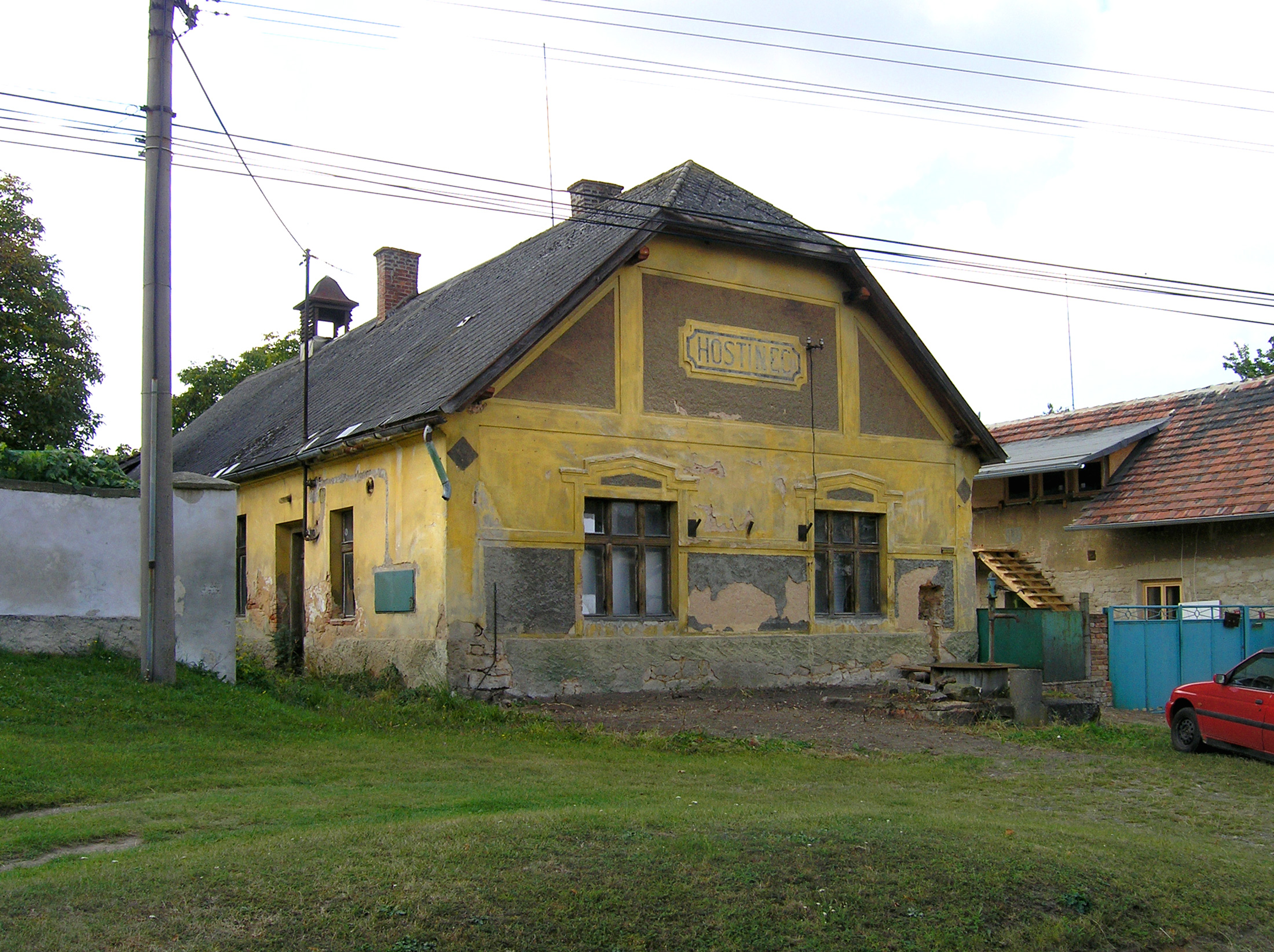 Old pub in Vrátkov, Czech Republic